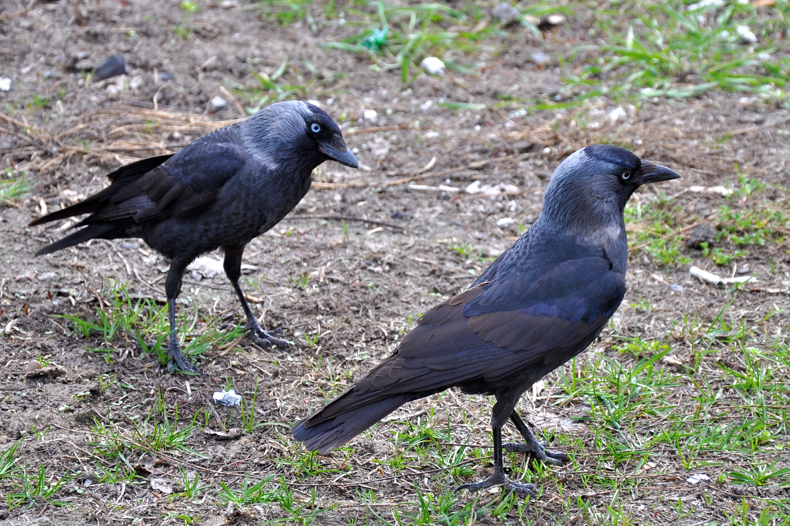 Corvus monedula L.